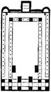 Basilica, Herculaneum, plan.